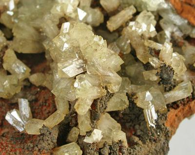 Adamite Locality: Ojuela Mine, Mapimí, Municipio de Mapimí, Durango, Mexico (Locality at ) Size: 8.3 x 7.2 x 5.0 cm. Sparkly, glassy clusters of lustrous, pastel-green adamite prisms richly fill a bowl-like vug in sculptural, sturdy gossan matrix on this fine, old-time specimen from the Mina Ojuela. Additional adamite crystal clusters are scattered on the sides, adding character. Classic, older material from the 1960s or early 1970s from the Mullane Collection.